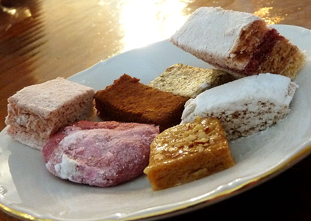 Kolomna pastila. Museum "Kolomna pastila" in Kolomna